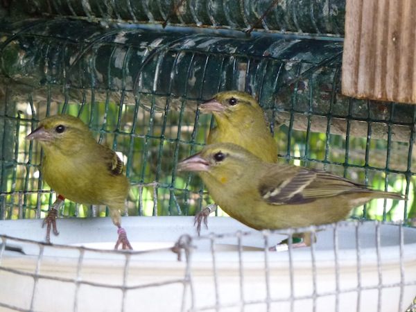 the old girls in the feeding station. Some are 5-7 years old and even got red feathers.